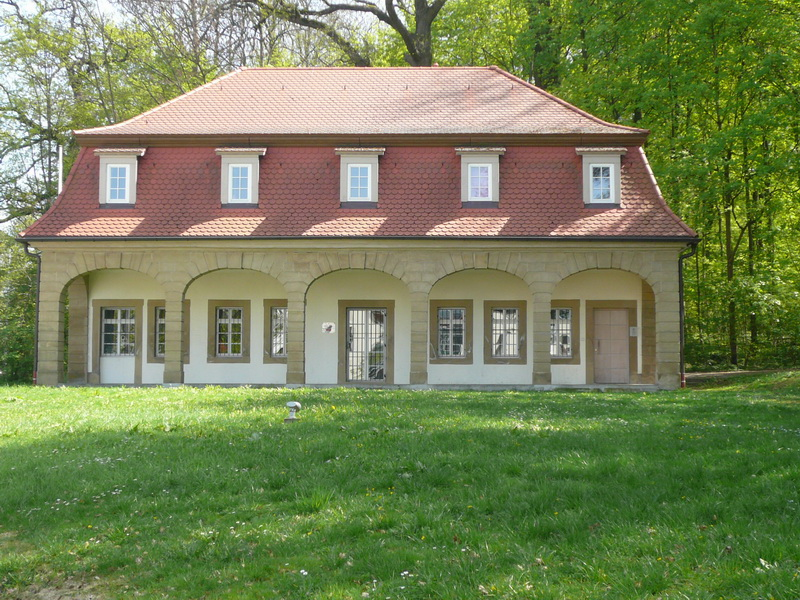 Aldingen gatehouse, Ludwigsburg